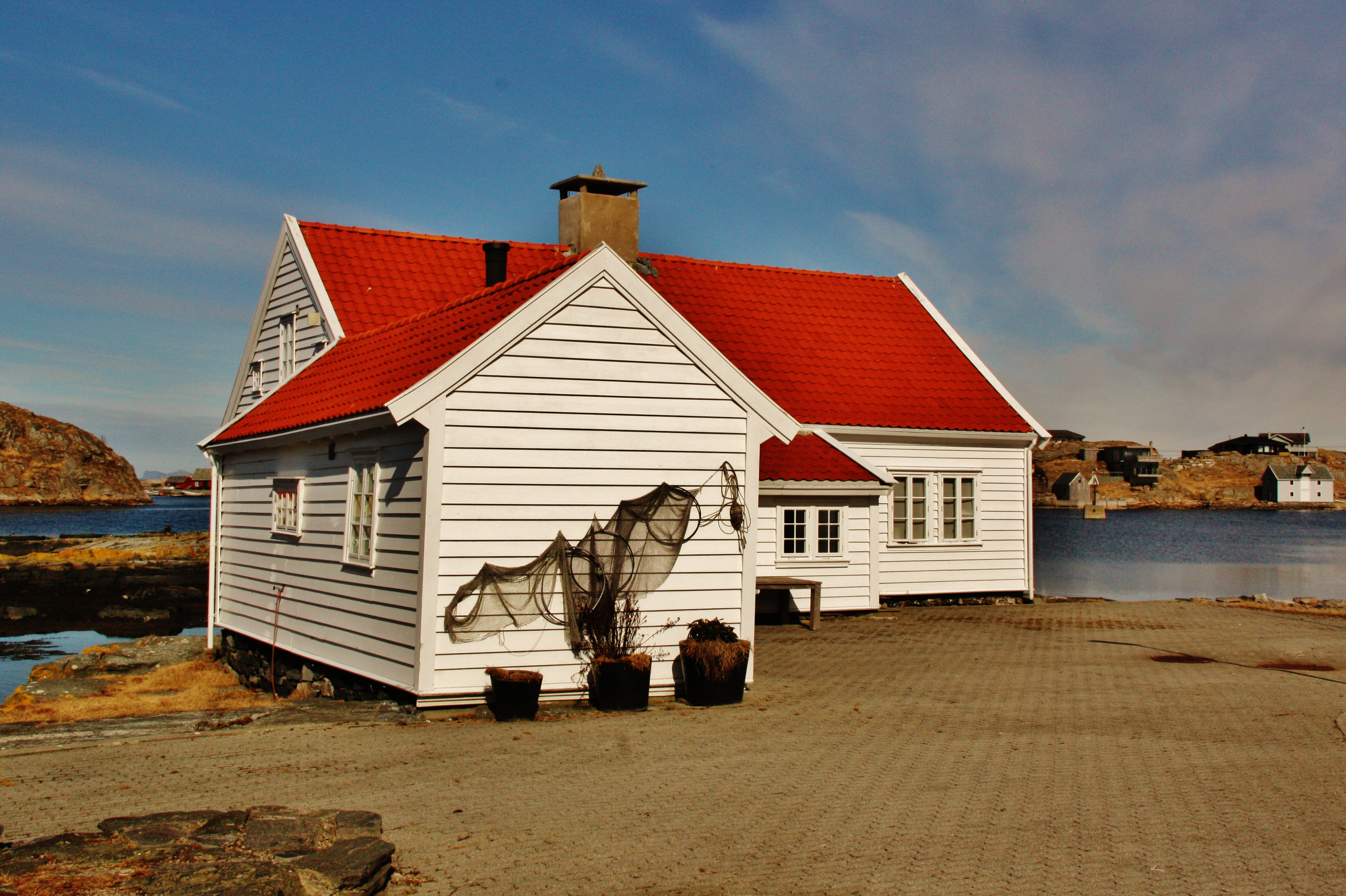 Kræmmerholmen in Fedje, an old place of trade. Today a fish restaurant.